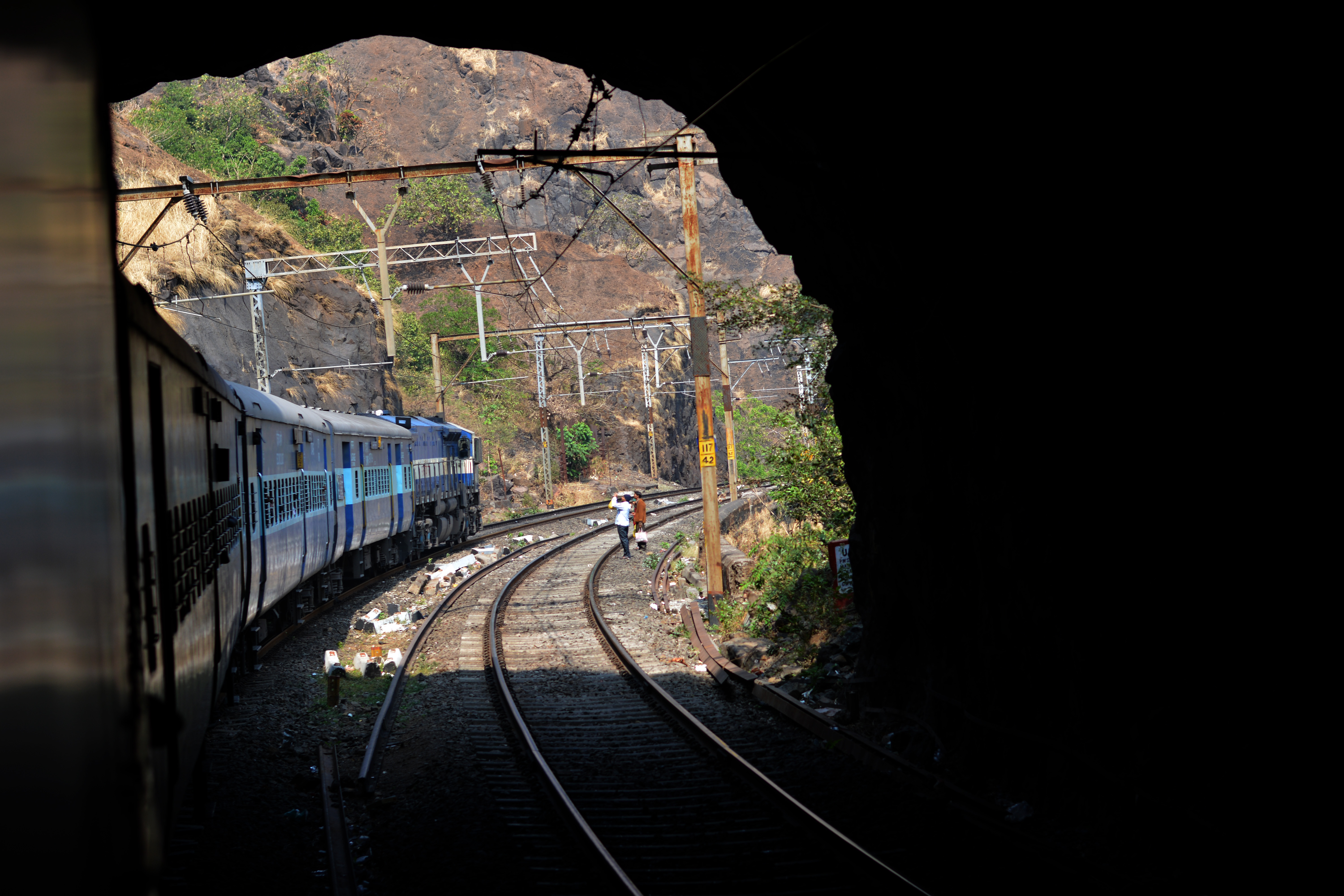 captured this beautiful photo of train exiting through a tunnel on the journey to Mumbai, India